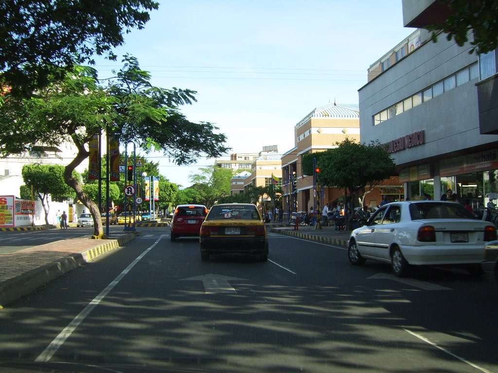 Author: Ricardo Ramírez Source: Own Work Tags: Cúcuta License: GFDL Self Made